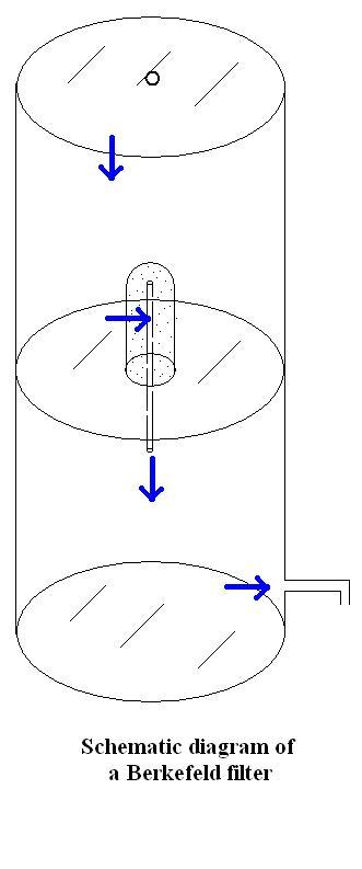 Schematic diagram of a Bakerfeld filter